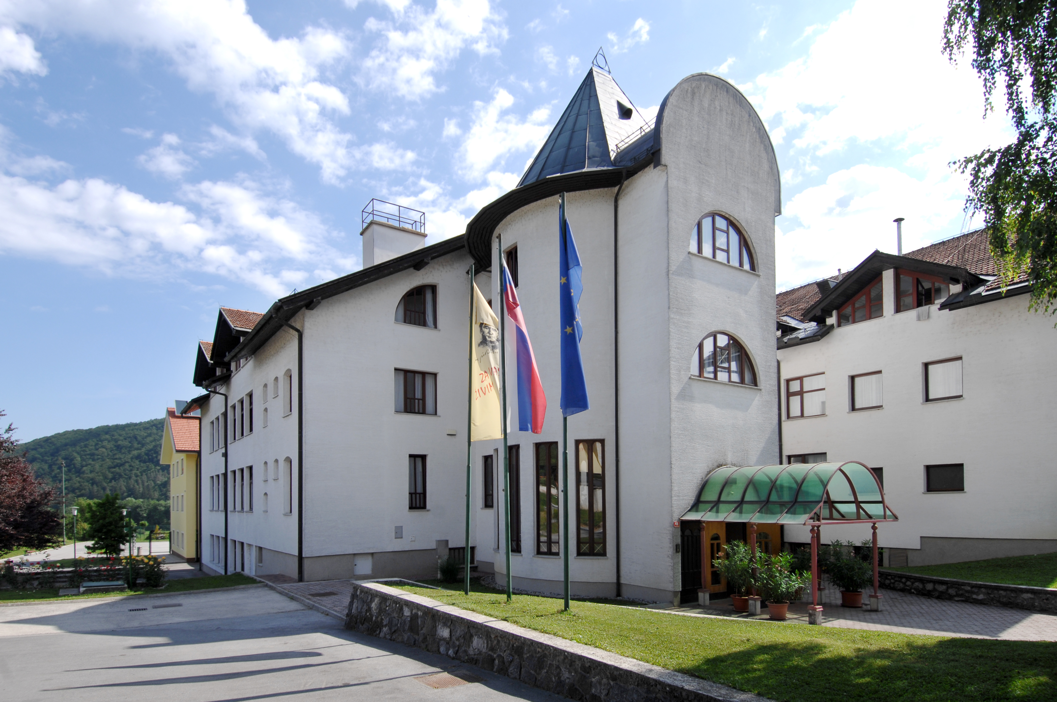 Gimnazija Zelimlje, Zavod sv. Franciska Saleskega, Zelimlje